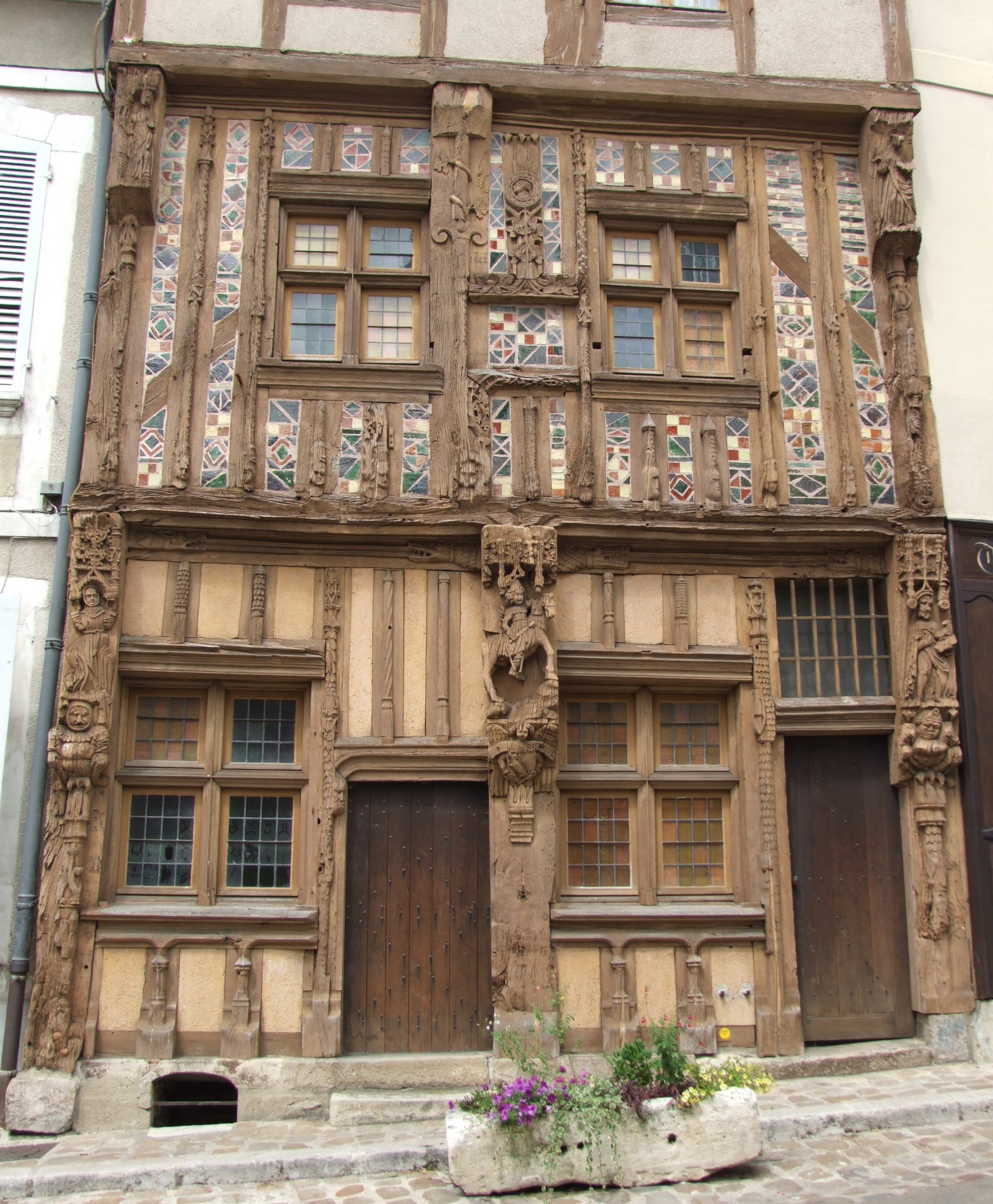 Joigny, Yonne, Burgundy, FRANCE